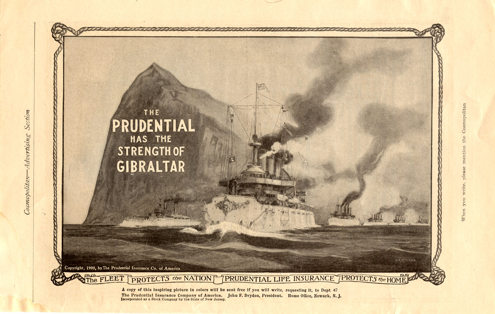 Old advert of the Prudential Insurance Co. of America depicting the Rock of Gibraltar and comparing it's strength to their insurance.